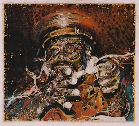 1 Painting Las Manazas del Dictador (Clumsy Acts of the Dictator) by Antonio García Vega[1]